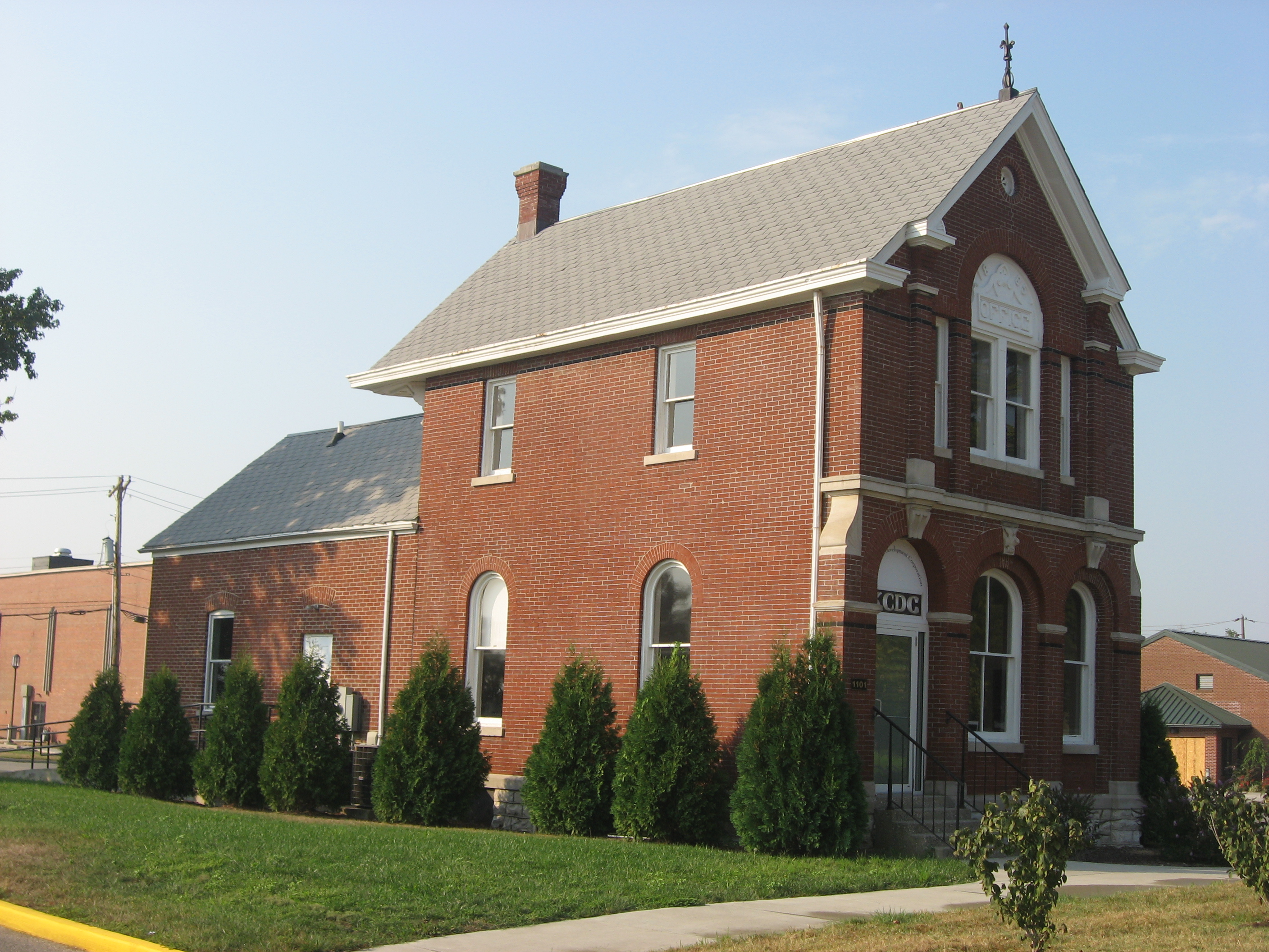 View from the north of the Hack and Simon Office Building, located at 1101 N. Third Street in Vincennes, Indiana, United States. Built in 1885, it is listed on the National Register of Historic Places.